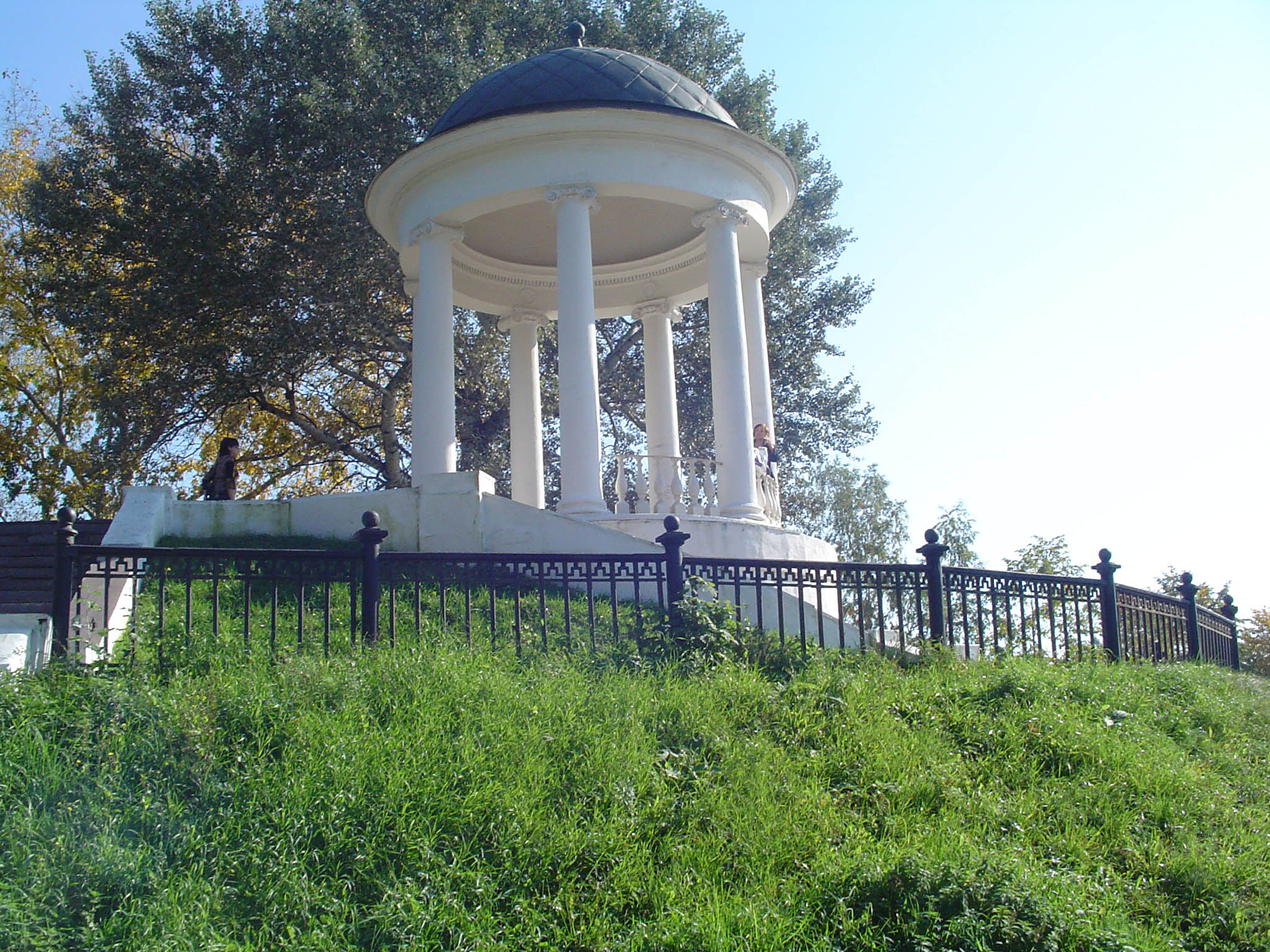 Kostroma, Russia. Ostrovsky summer-house.